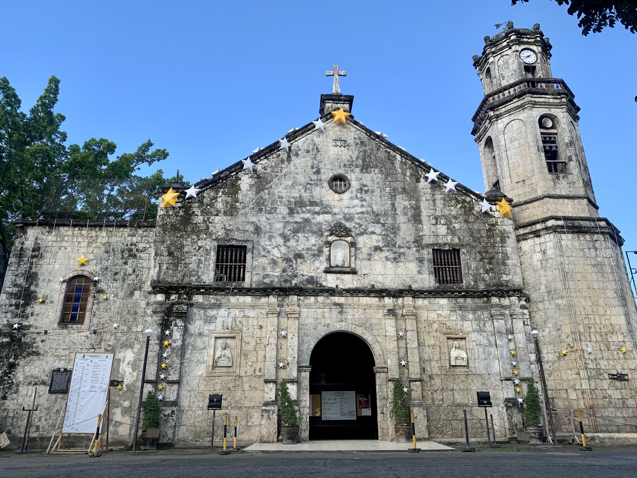 Our Lady of the Assumption Cathedral in Maasin City, Southern Leyte on Dec. 28, 2019